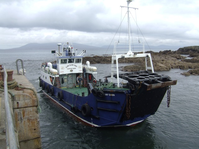 Clew Bay Queen at Roonagh Quay